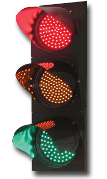 A Led Traffic lights